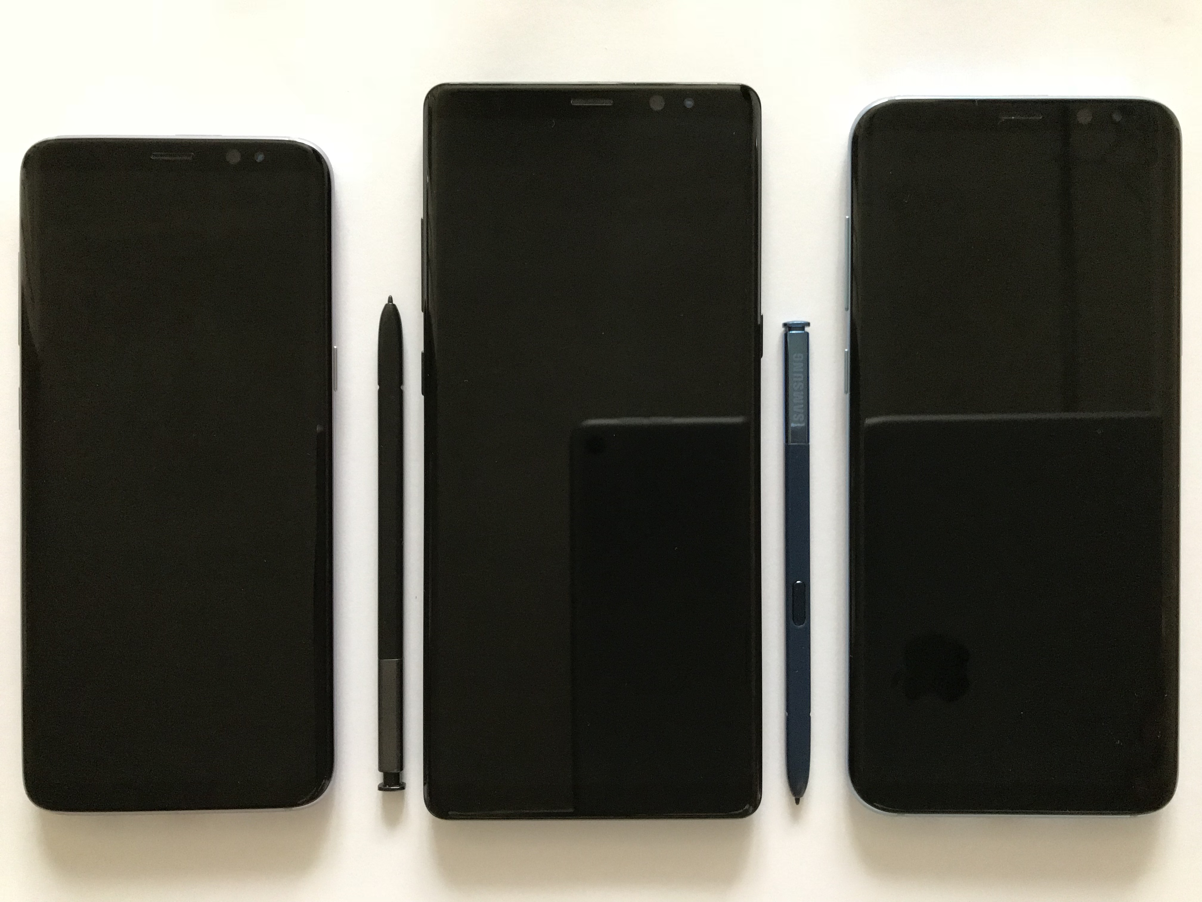 Android Smartphones (screen off)